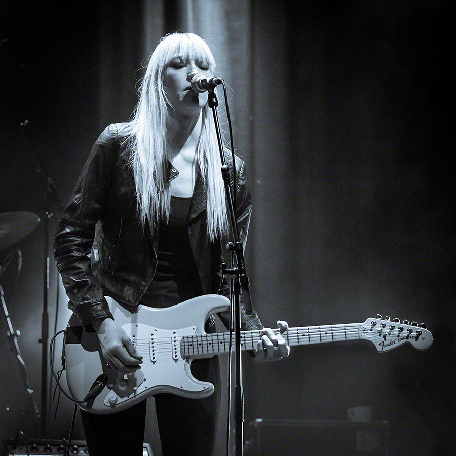 Hilma Nikolaisen and bank performs at Cosmopolite in Oslo.